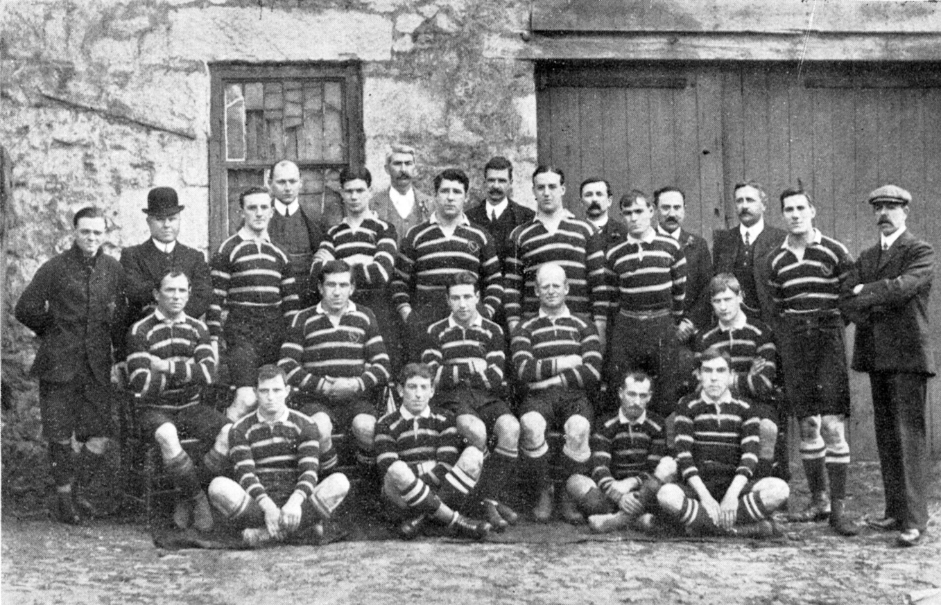 The Cornwall RFU team that won the county championship, 1907-08. Standing (L to R): Gil Evans, W.D.Lawry(Hon Sec), B.B.Bennetts, Dr R.C.Lawry, A.J.Wilson, J.H.Willaims, F.S.Jackson, C.F.Hopley, J.G.Milton, J.Quick, N.Tregurtha, F.W.Thomas. Seated: A.Lawry, R Jackett, E.J.Jackett (Captain), F.Dean, Bert Soloman. On Ground: R.Davey, J.Jose, T.G.Wedge, J.Davey.